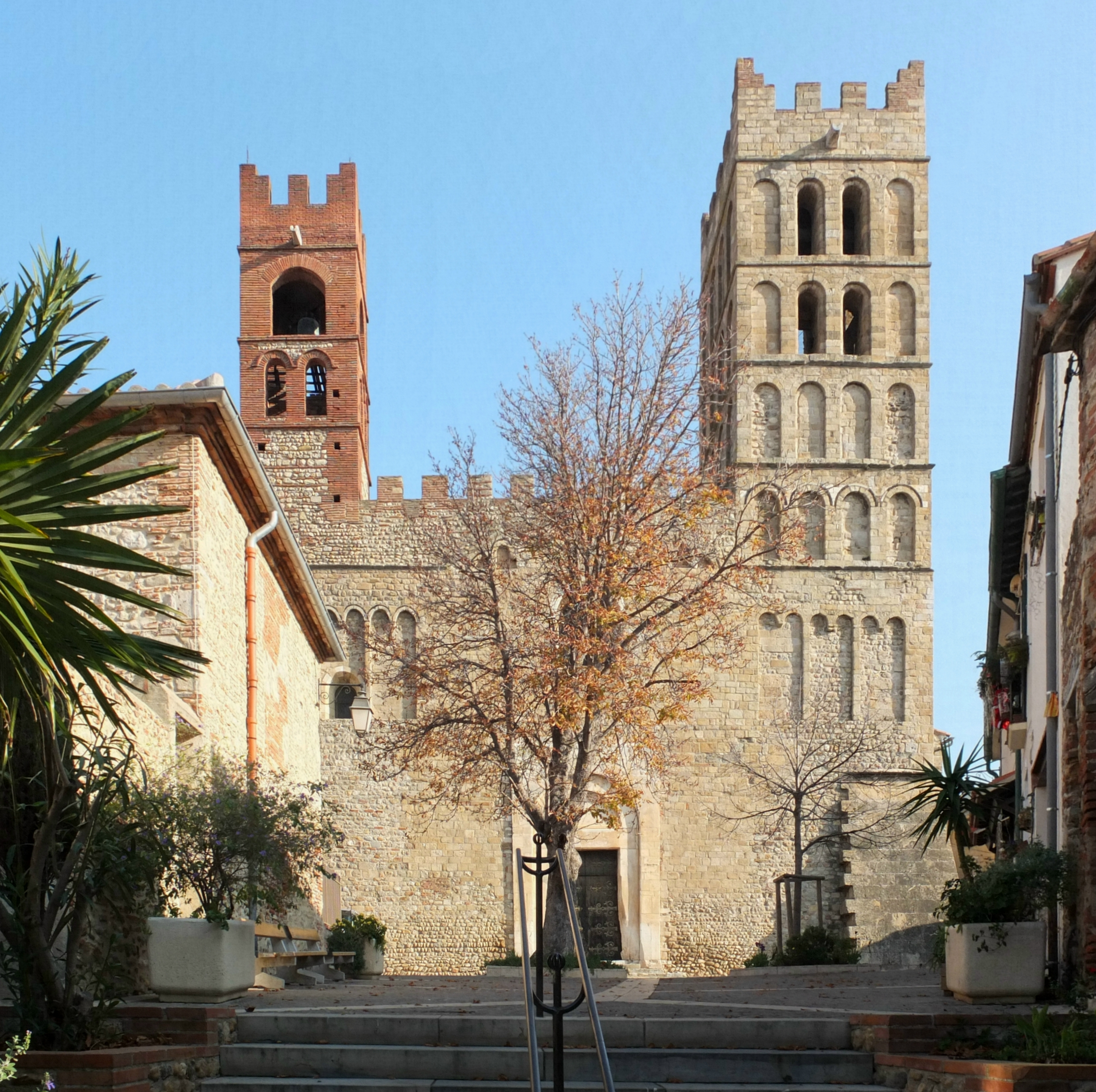 Elne, France: Cathédrale Sainte-Eulalie-et-Sainte-Julie, (view W)